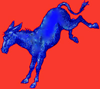 Rendition by uploader of the Democratic Donkey first drawn by Thomas Nast in 1870 (Image:Democraticjackass.jpg, now in the public domain), image isolated, reduced, colorized, and otherwise altered in various subtle ways.